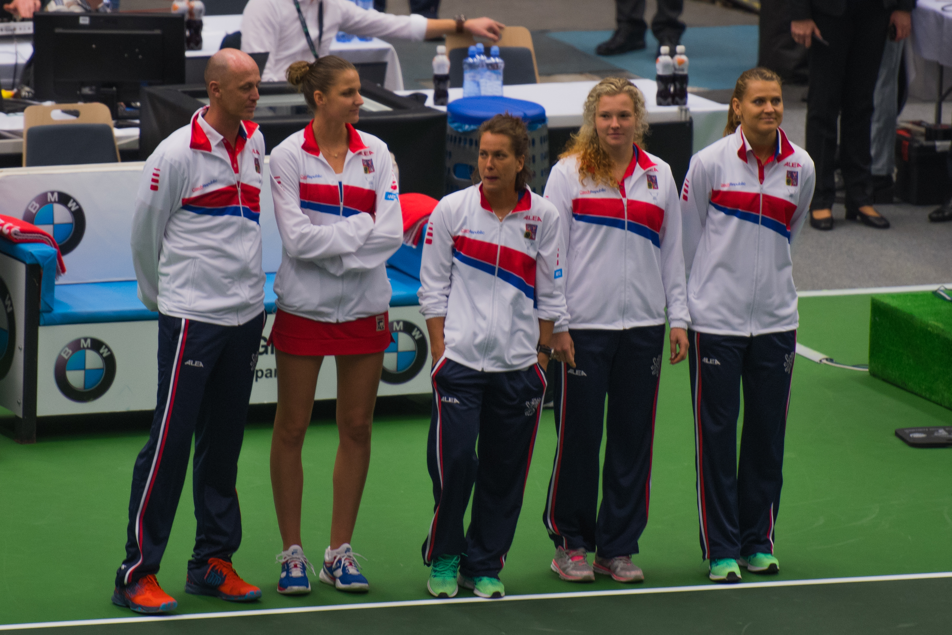 The 2017 Czech Fed Cup team: Petr Pála (captain), Karolína Plíšková, Barbora Strýcová, Kateřina Siniaková and Lucie Šafářová.